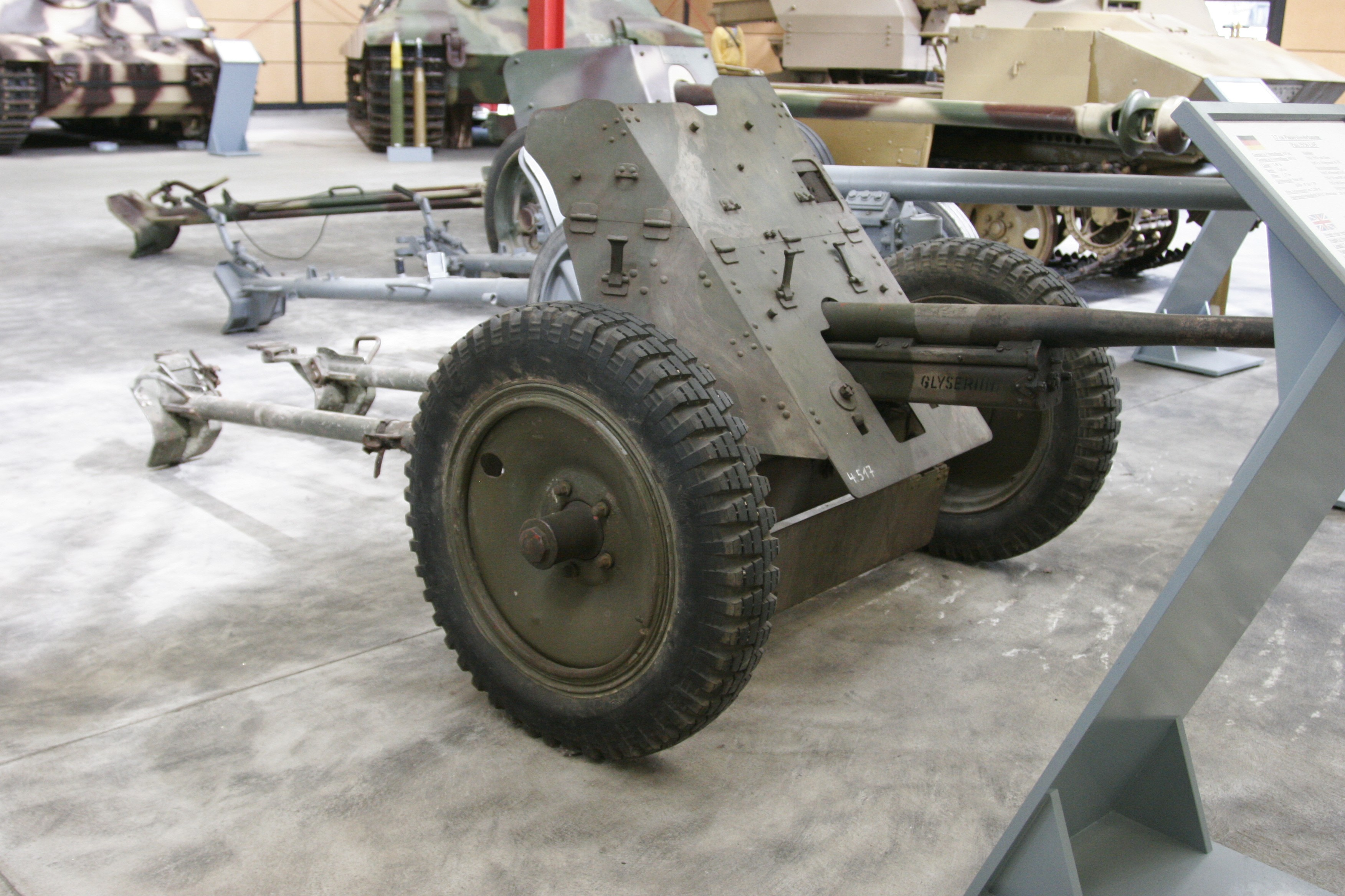 3,7 cm Panzerabwehrkanone (PaK) 35/36 L/45, also known as "Heeresanklopfgerät" on display at the Deutsches Panzermuseum Munster , Germany.